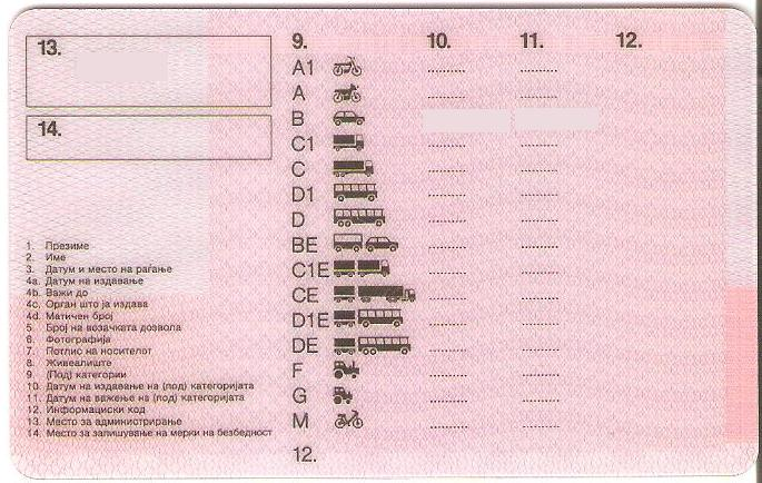 Macedonian driving licence - back.